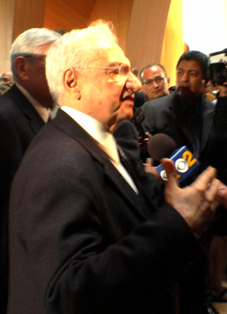 Architect Frank Gehry giving a presentation on the Grand Avenue Project, April 24th, 2006 at the Disney Concert Hall in Los Angeles, California, USA.